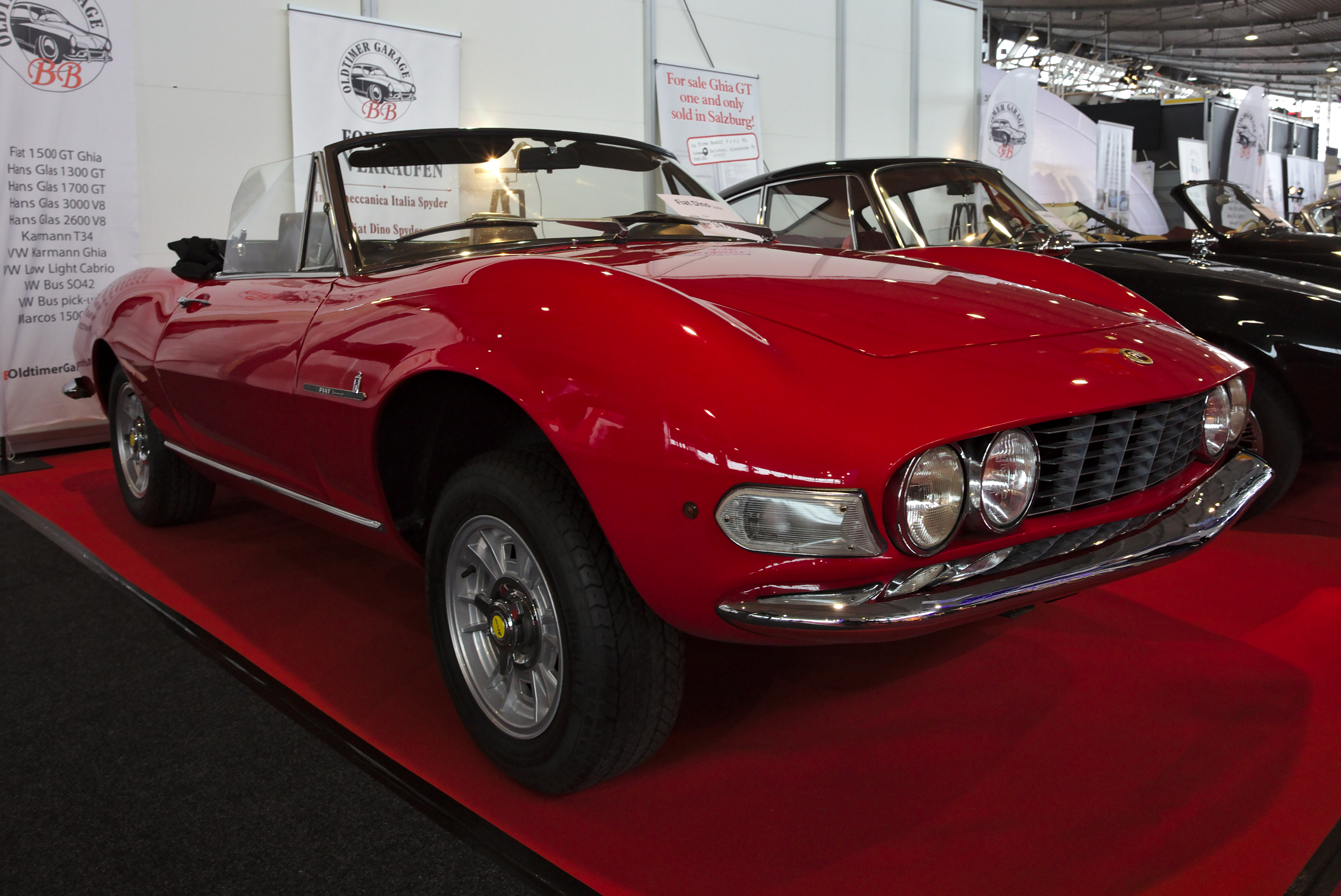 Fiat Dino Spider at Retro Classics 2018